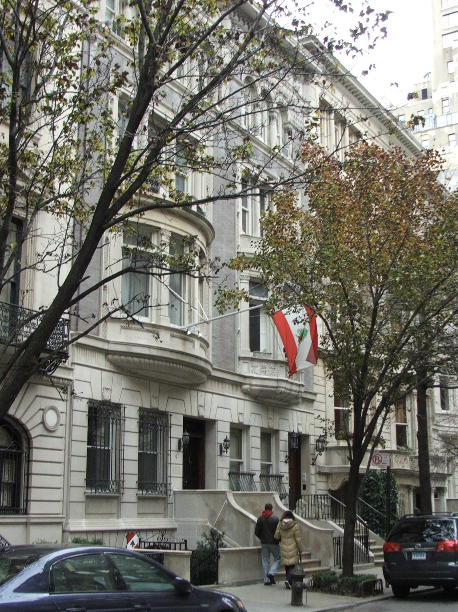 Lebanese consulate in New York City, at 9 East 76th Street